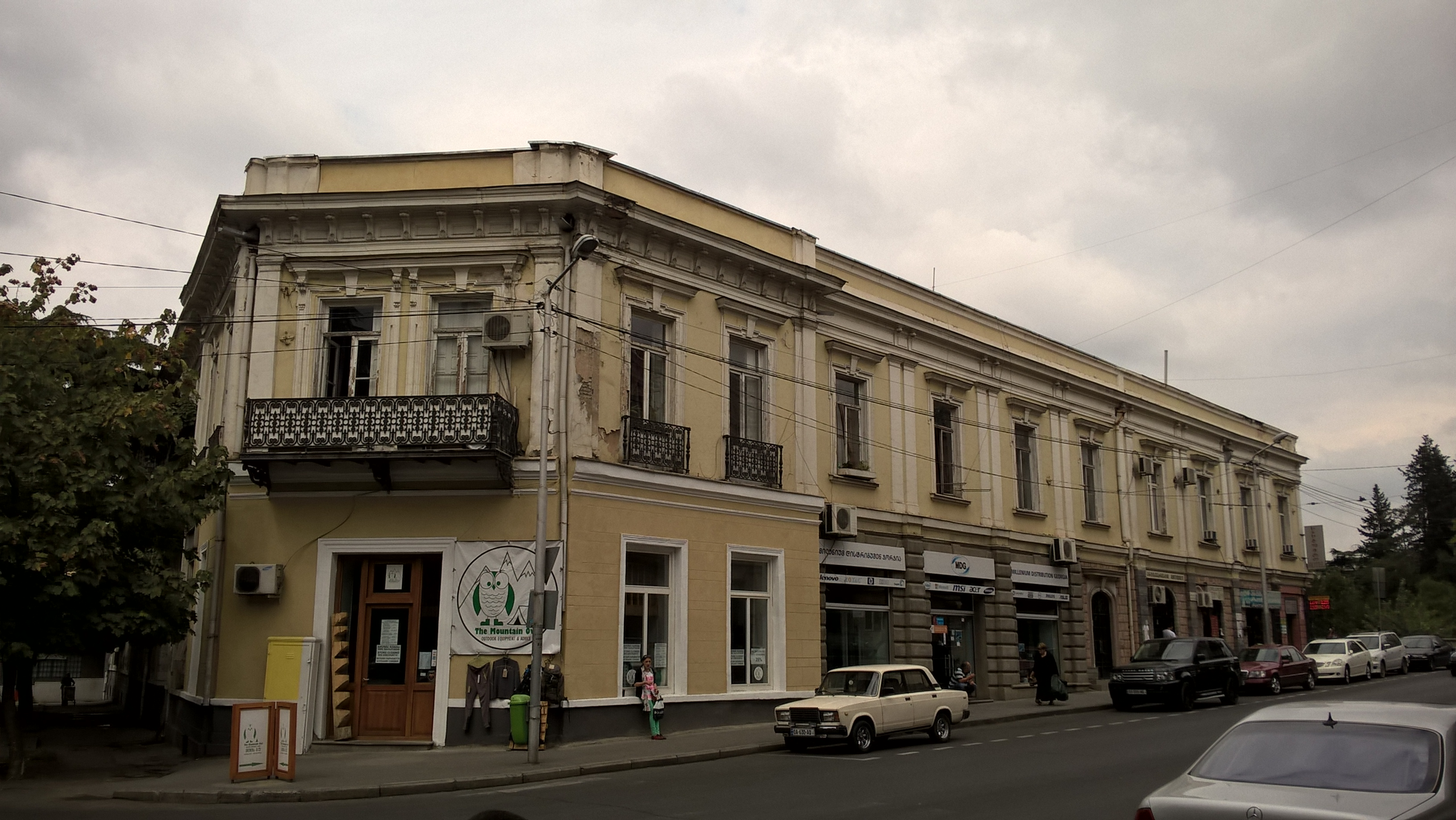 Giorgi Atoneli street 31 / Khidi street 2, Tbilisi, Georgia